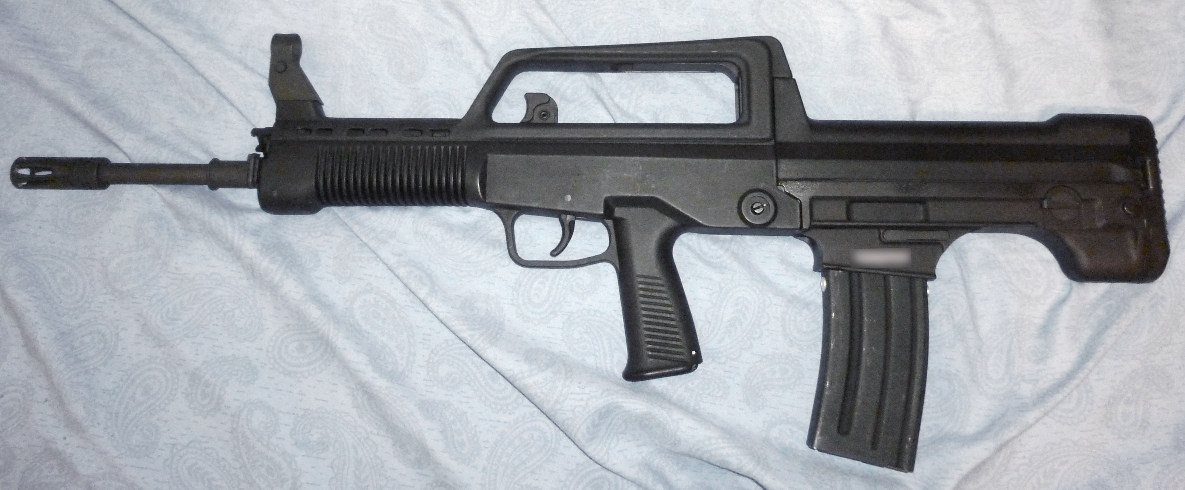 A Stock T97NSR made by Norinco for the Canadian Civilian market.